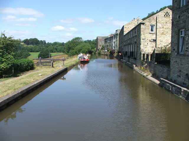 Leeds and Liverpool Canal at Kildwick, North Yorkshire